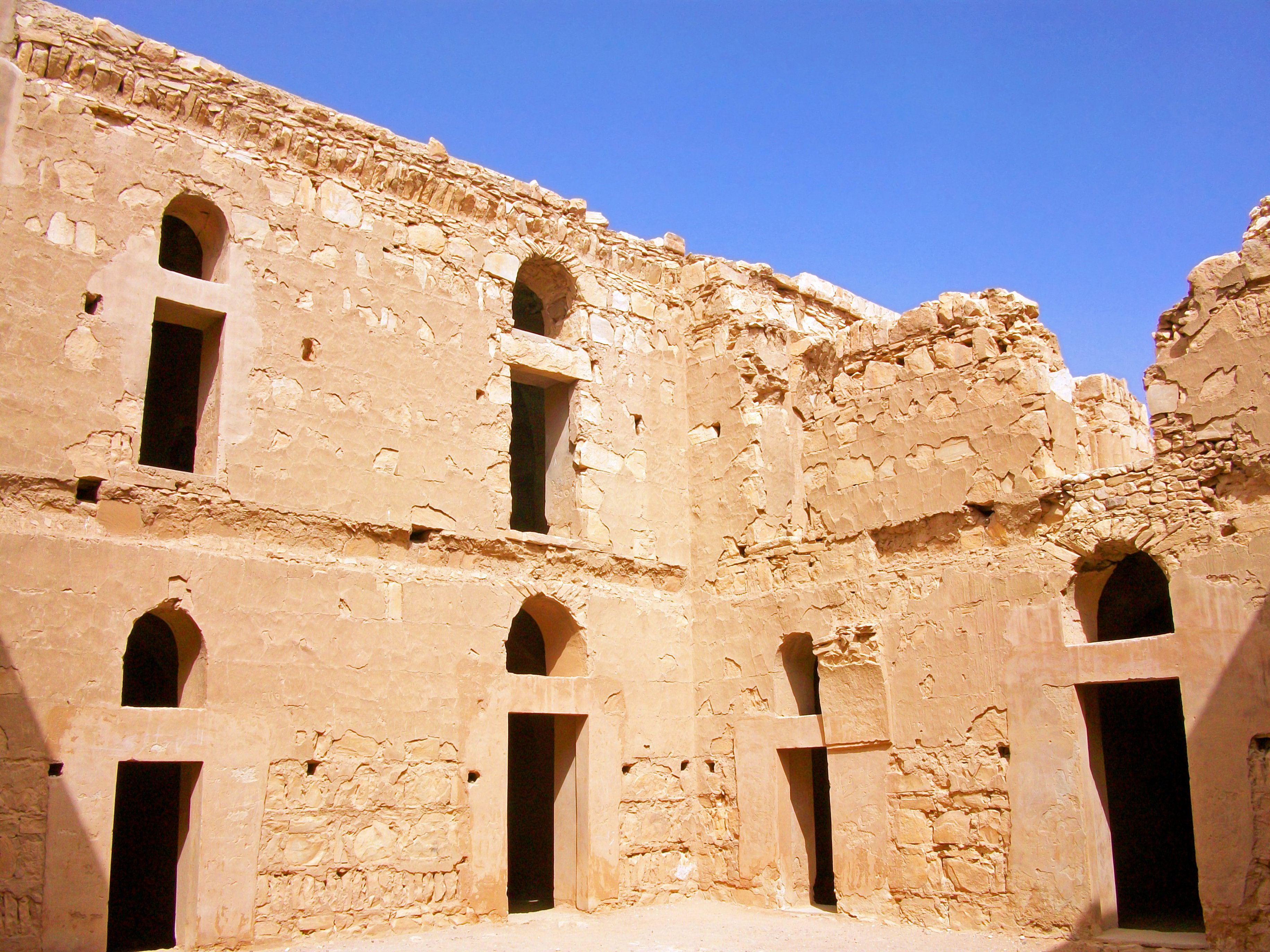 Courtyard of Qasr Kharana, Jordan